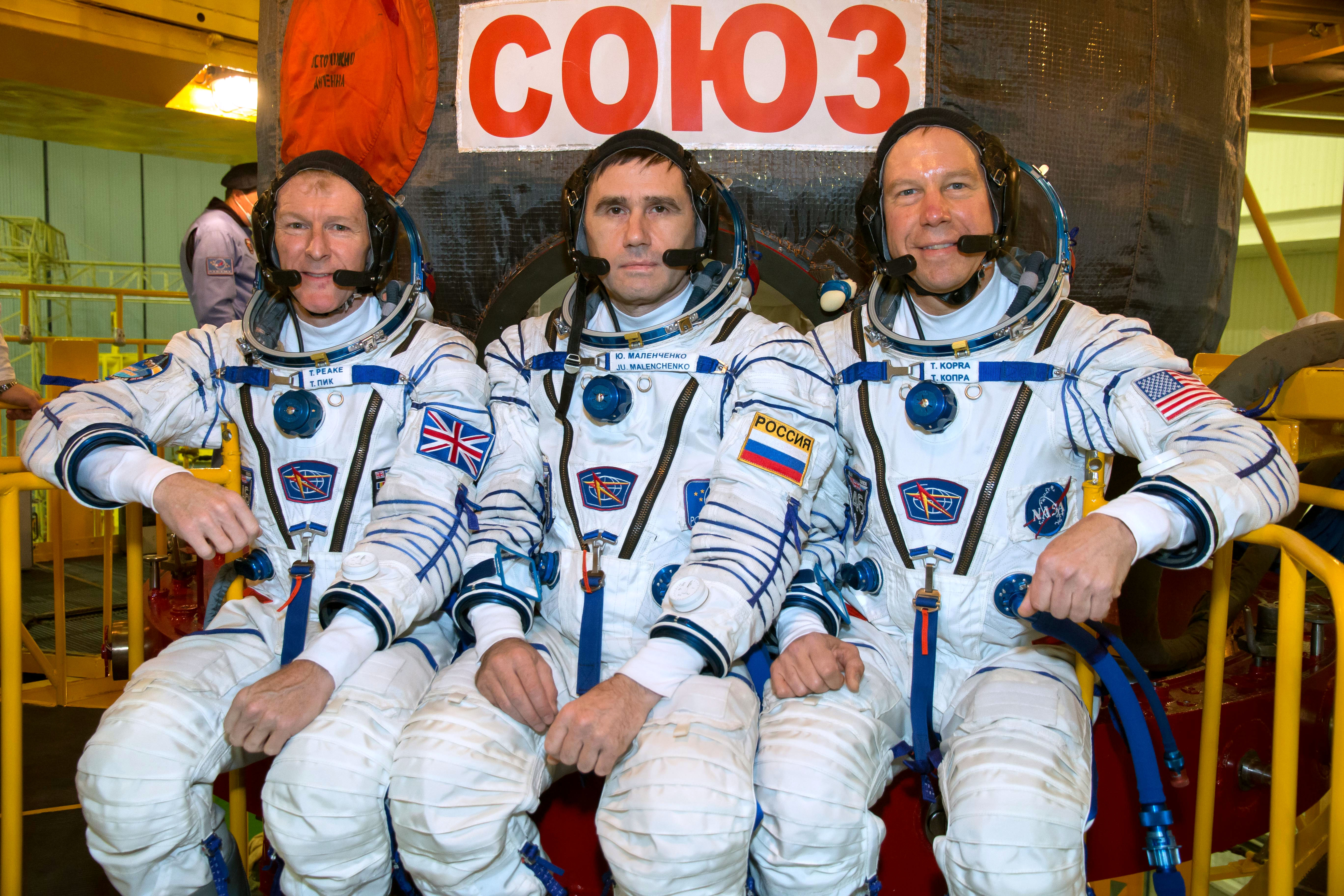 In the Integration Facility at the Baikonur Cosmodrome in Kazakhstan, Expedition 46-47 crewmembers Tim Peake of the European Space Agency (left), Yuri Malenchenko of the Russian Federal Space Agency (Roscosmos, center) and Tim Kopra of NASA (right) pose for photos Dec. 1 in front of their Soyuz TMA-19M spacecraft during a crew fit check. The trio will launch Dec. 15 from Baikonur for a six-month mission on the International Space Station.